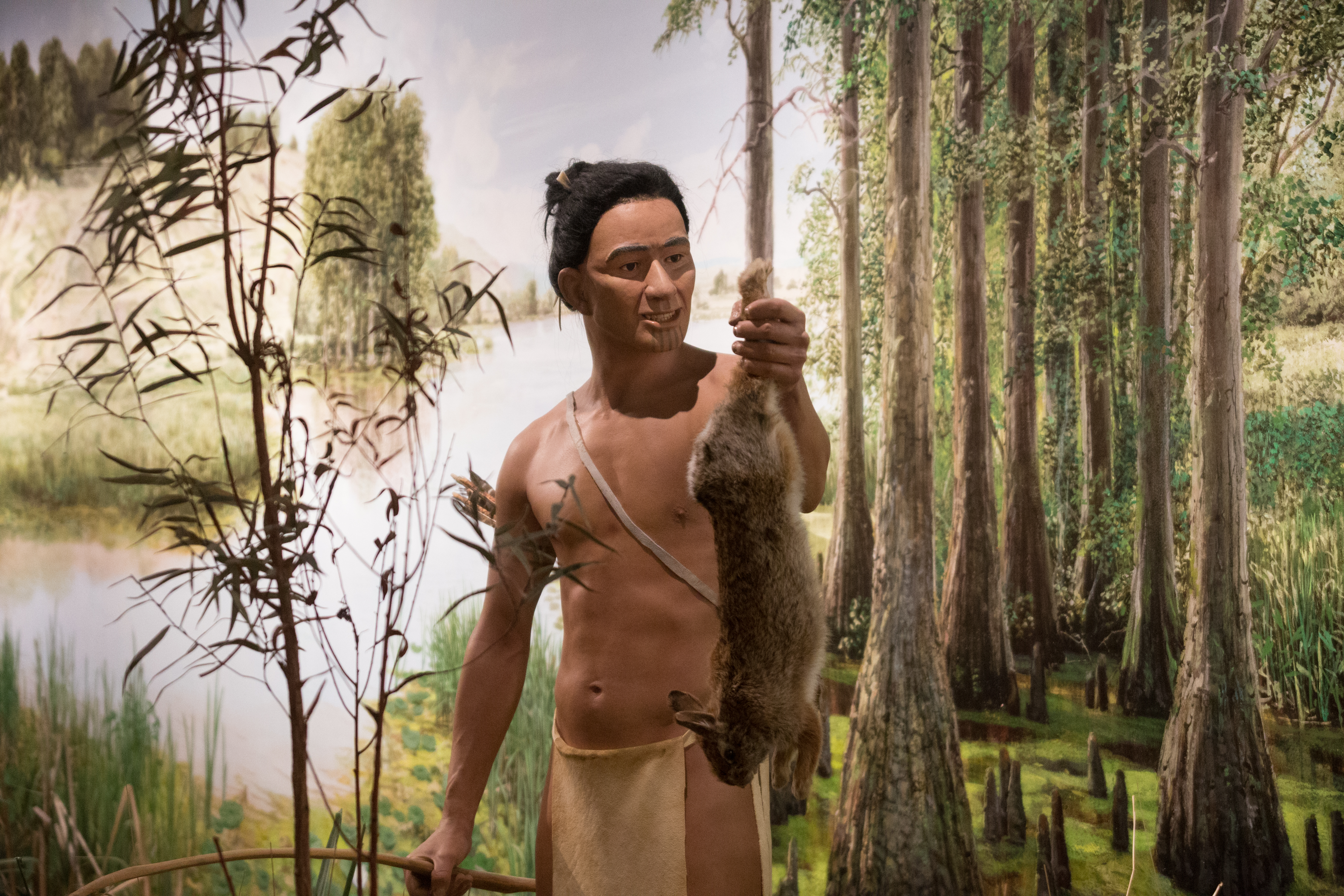 Cahokia Visitor's Center